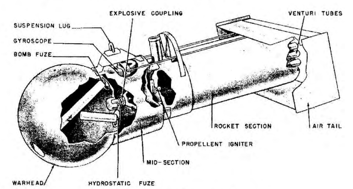 Diagram of a World War II, German Kurt bouncing bomb